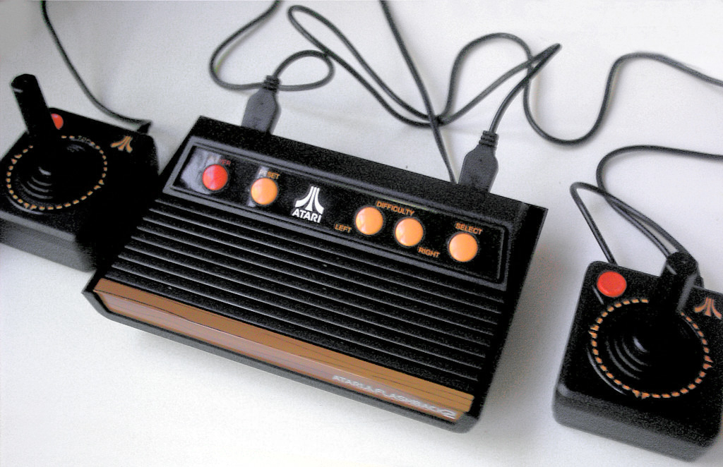 Atari Flashback 2, fotografiert von mir auf der Classic Computing 2005